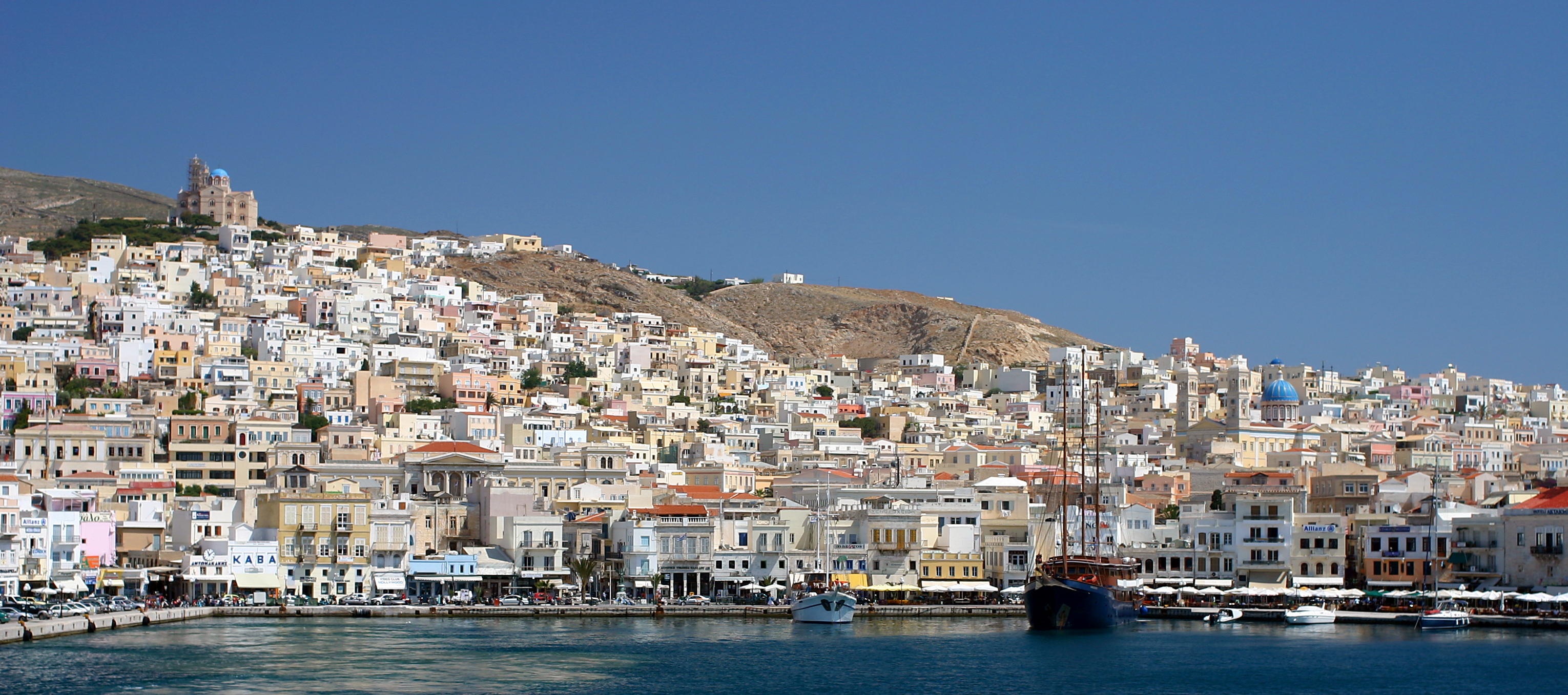 Ermoupouli, capital of the Cyclades and the Greek Island Syros.